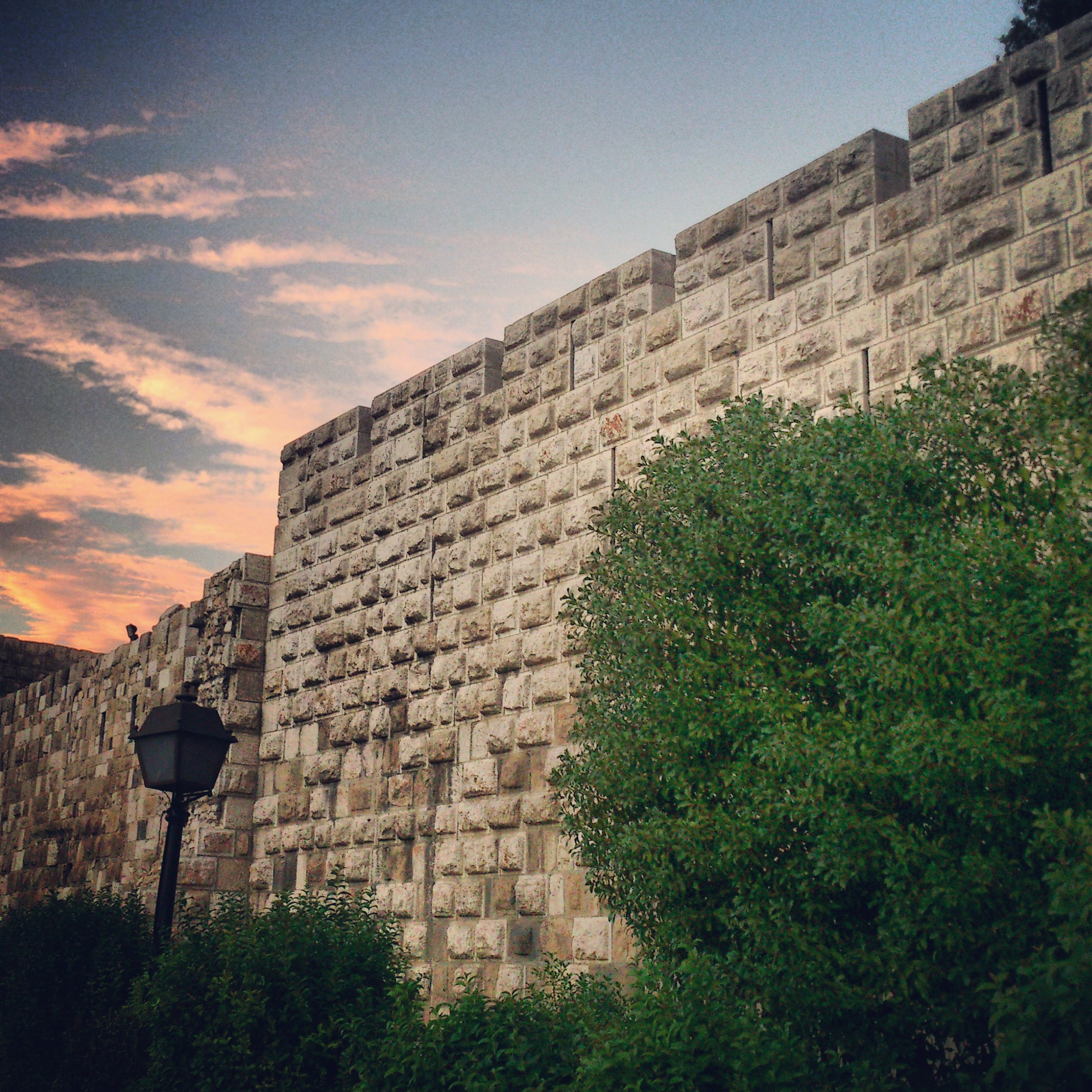 Stone walls of the Damascus Citadel, in Syria.